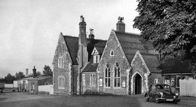 Battle Station, entrance. View northward, showing main station building on Up side; London - Tunbridge Wells - Hastings main line. Architecture in keeping with the historic town.